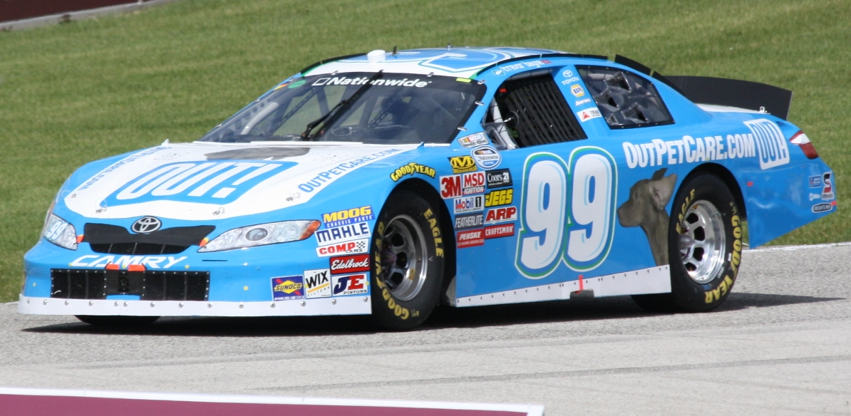 The NASCAR racecar for driver Trevor Bayne at the 2010 Bucyrus 200 at Road America.